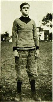 Graydon Long 1906 Football Picture